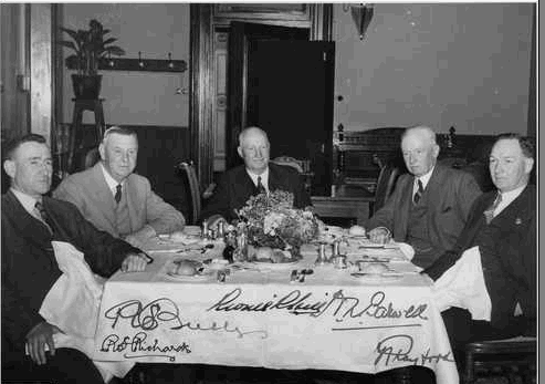 Former South Australian premiers Robert Richards, Sir Richard Butler, Lionel Hill, Sir Henry Barwell and Sir Thomas Playford, taken in 1940.